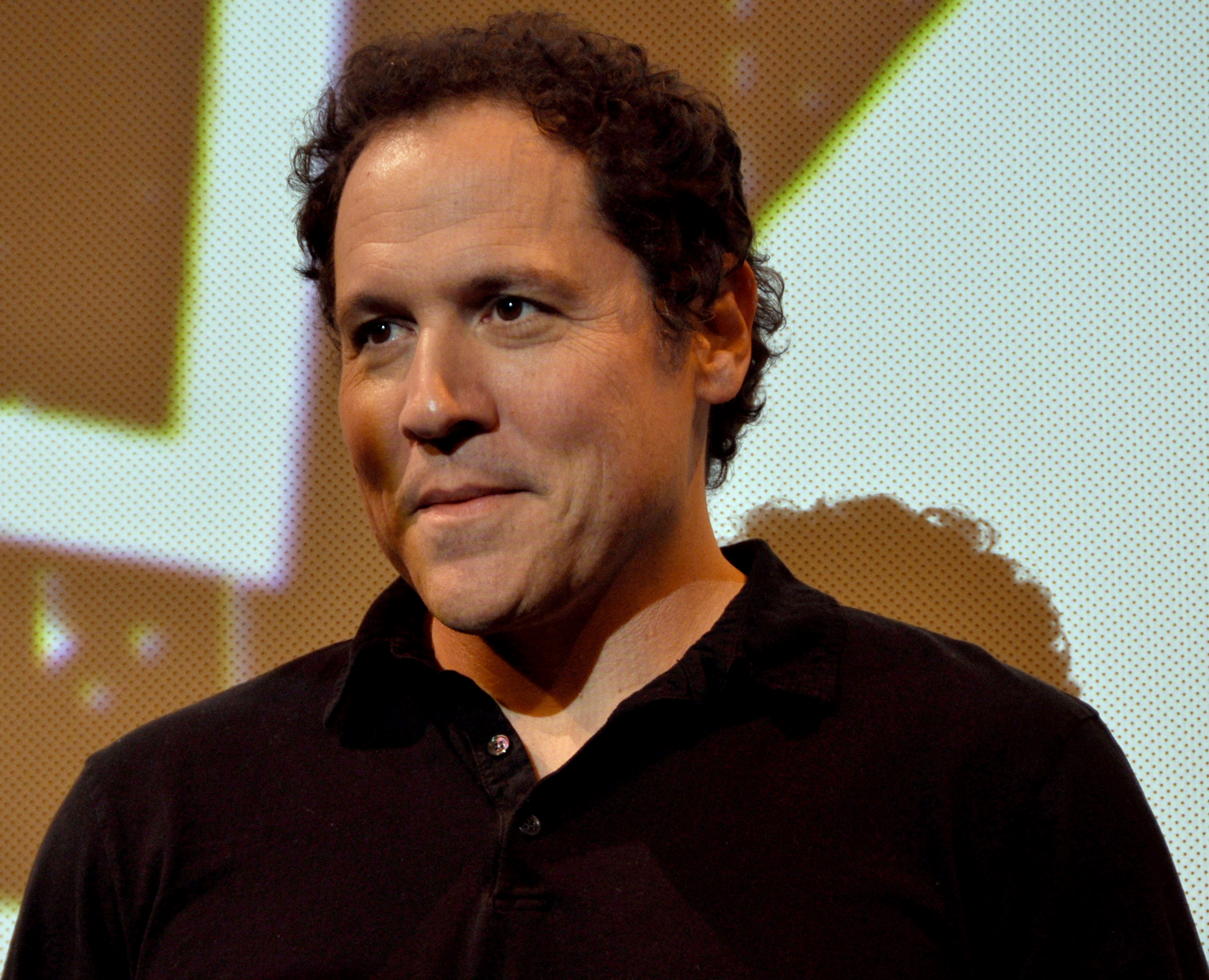 Jon Favreau at the Austin, TX premiere of I Love You, Man